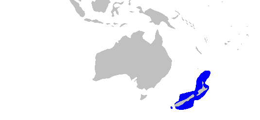 Distribution map for Gollum attenuatus